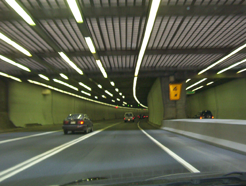 A-720 in Montreal, heading east